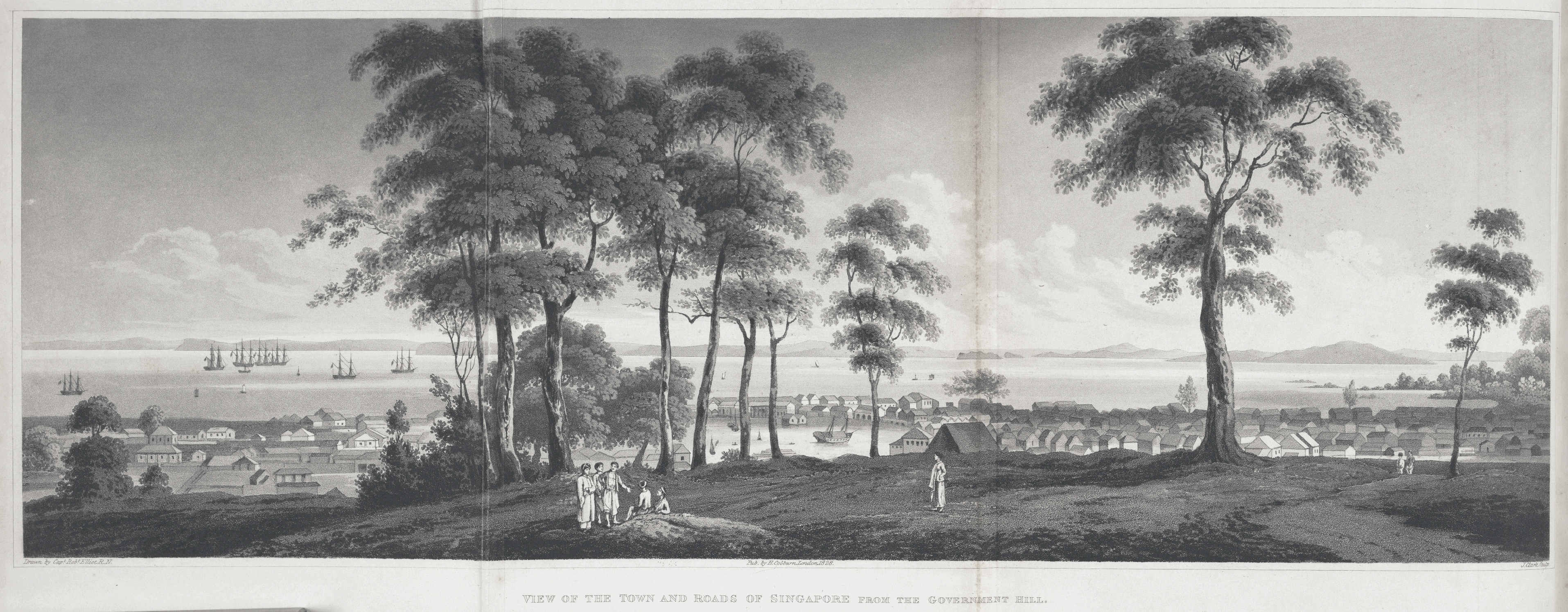 "View of the town and roads of Singapore from the government hill" from "Journal of an embassy from the Governor-General of India to the courts of Siam and Cochin-China" by John Crawfurd; published 1828.